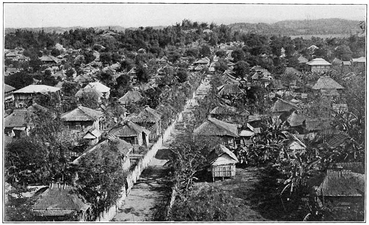 Street in Laoag, Ilocos Norte, 1900-1913